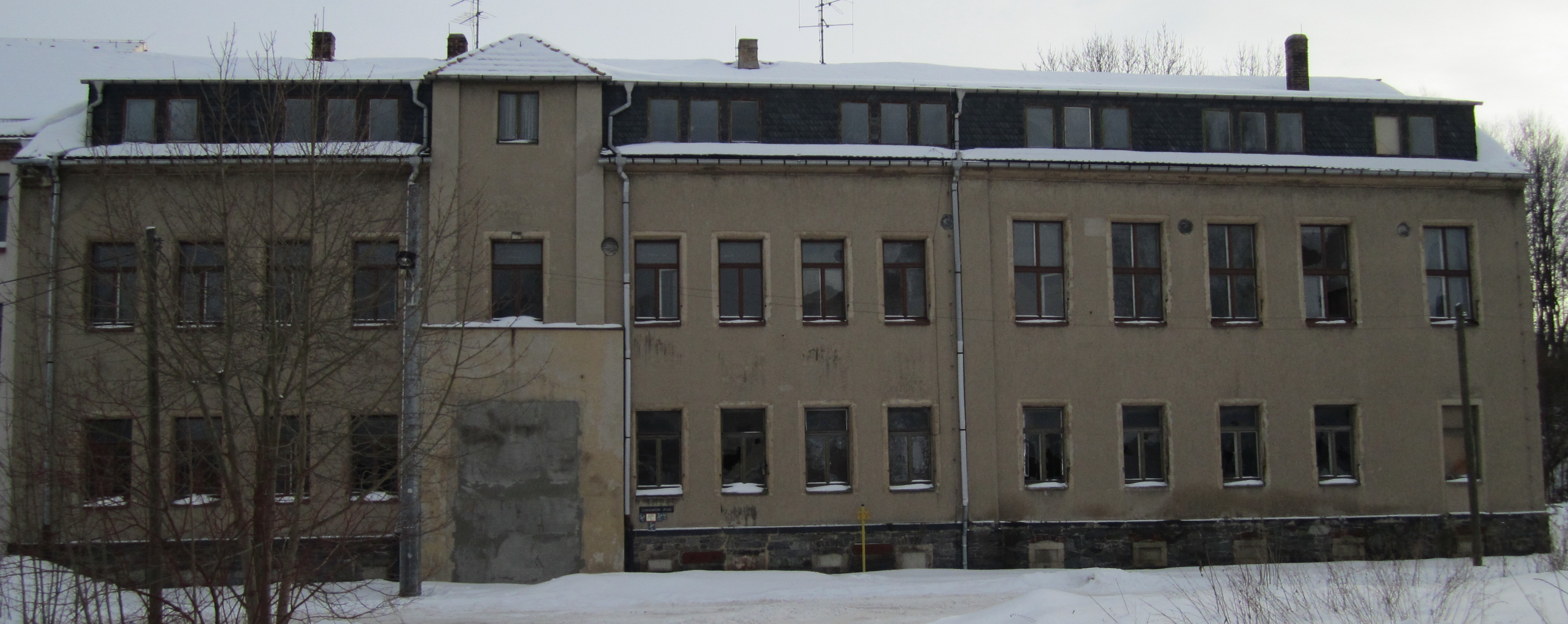 Former school of miners in Schedewitz/Zwickau, Saxony, Germany.